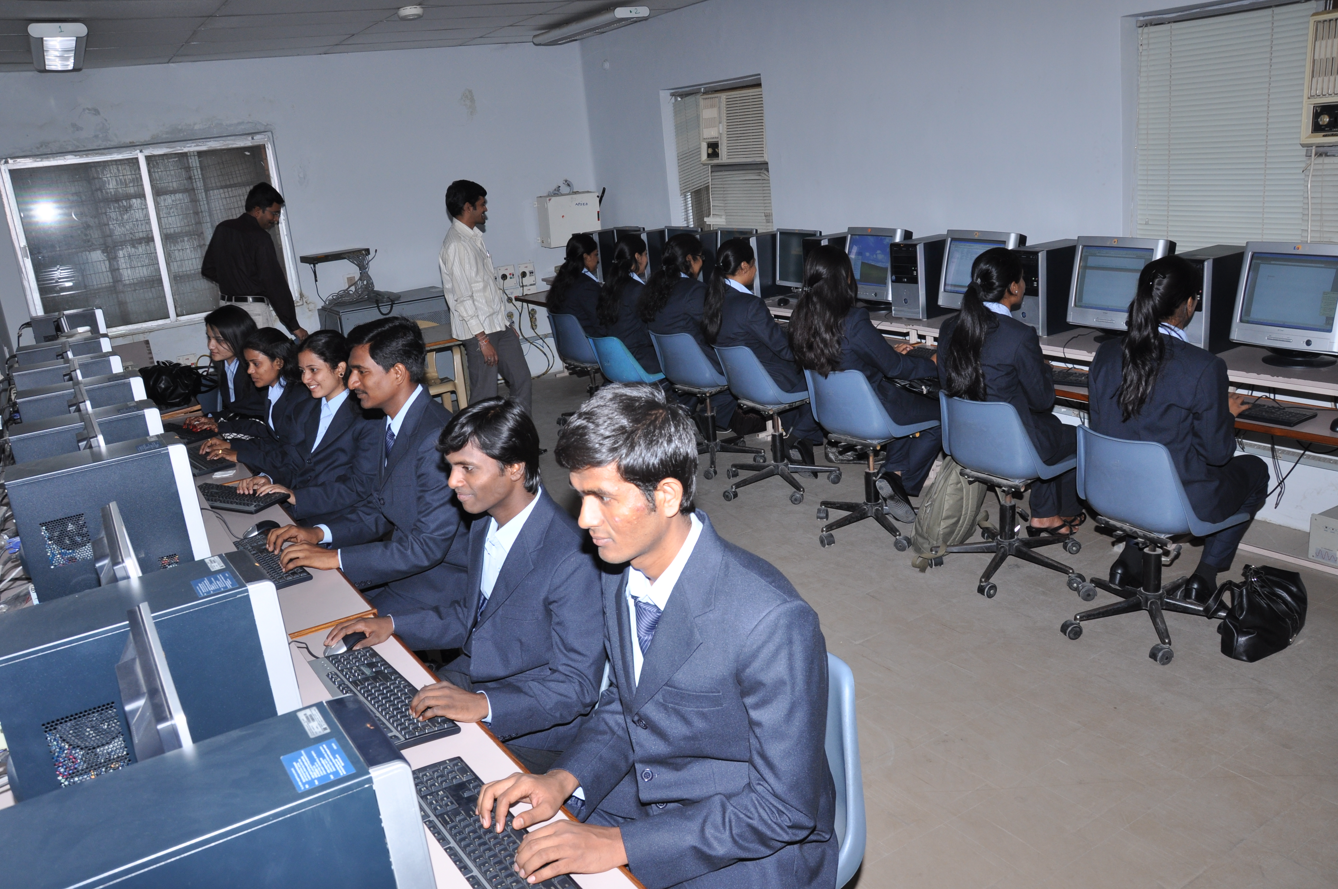 Badruka College Computer Lab